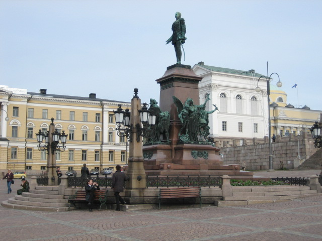 Statue of Alexander II of Russia at the Senate Square in Helsinki, Finland